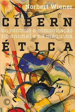 Book cover